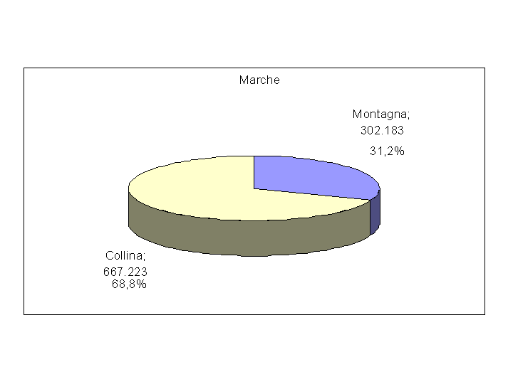 Statisticts of phisical area of Marche